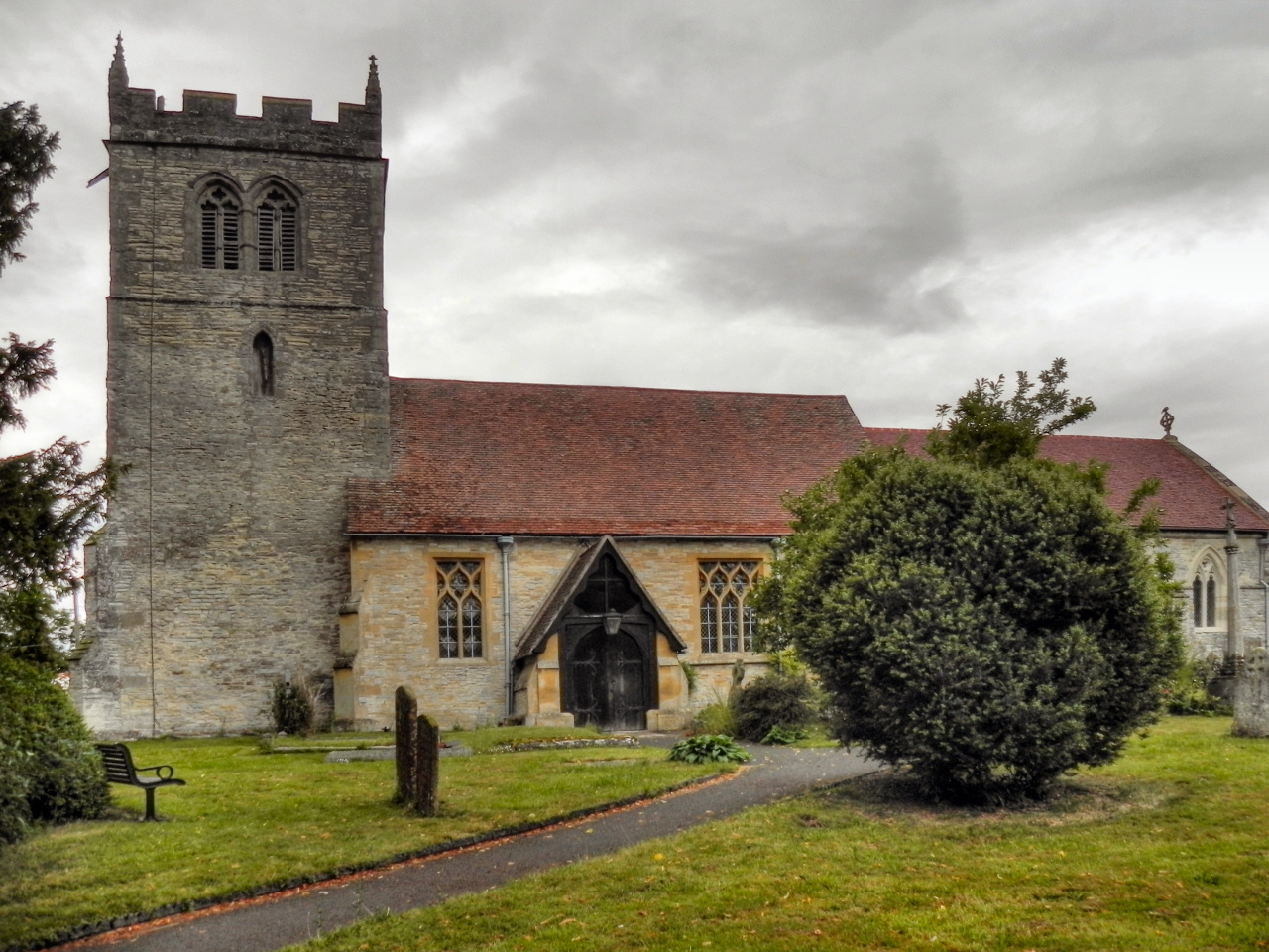 Aston Cantlow, St John the Baptist